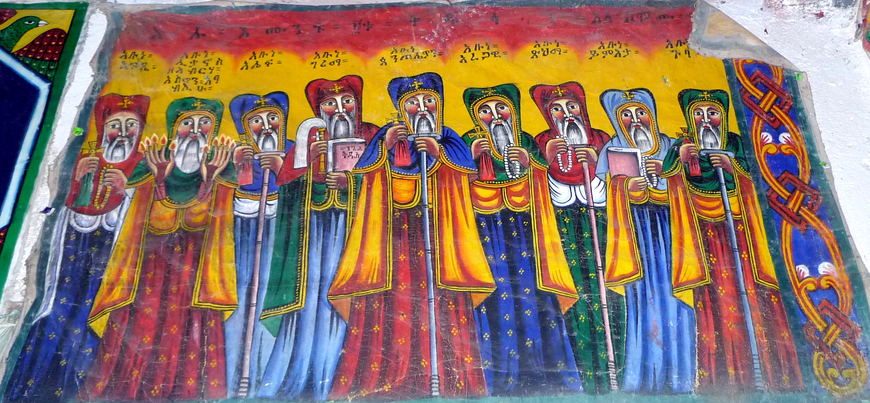 A painting of the Nine Saints in the Abba Pentalewon Monastery near Aksum (Tigray Region, Ethiopia).